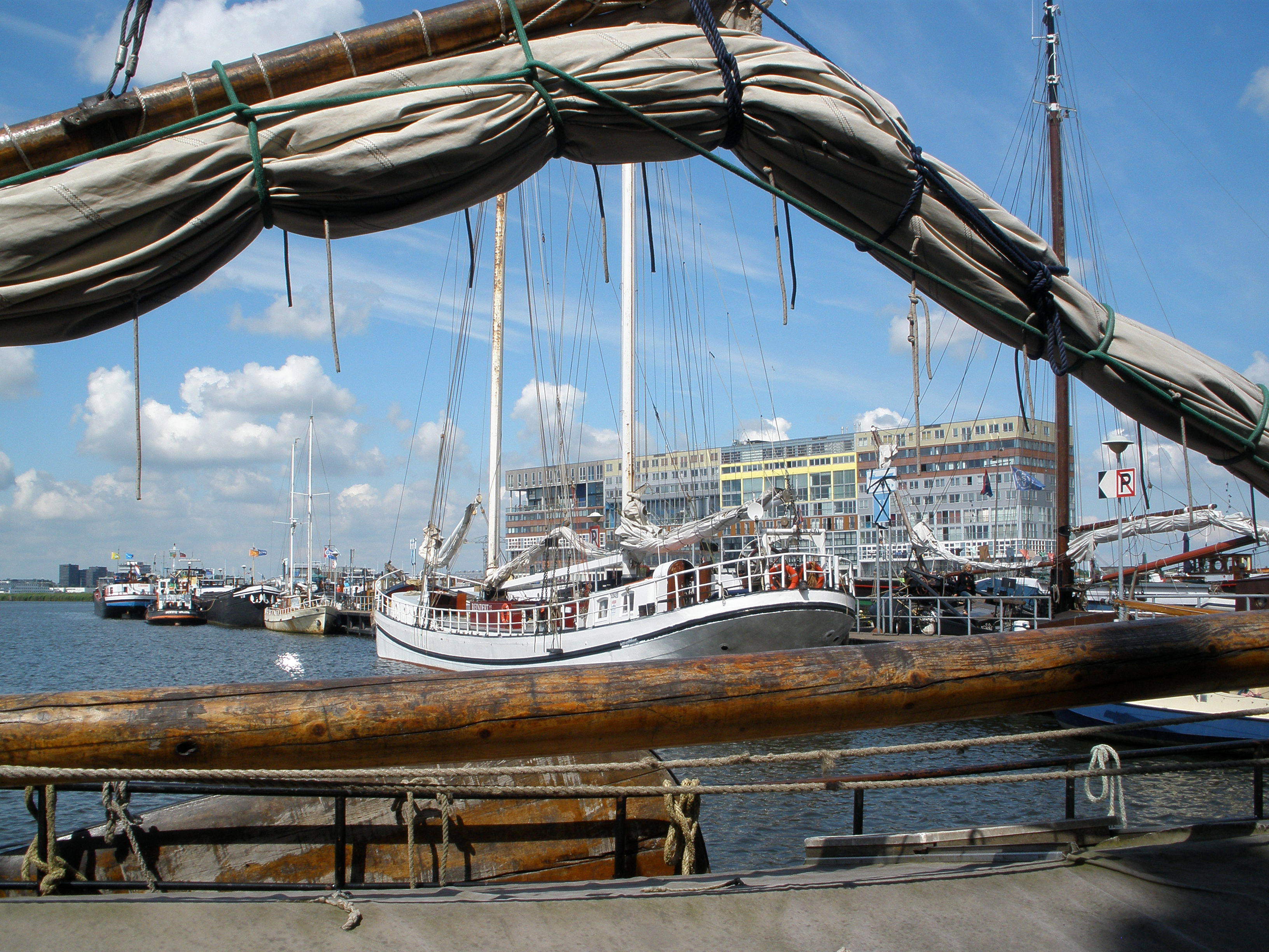 The Oude Houthaven, a harbour in Amsterdam. In the background, the 2002 apartment building on the Silodam designed by the agency MVRDV.